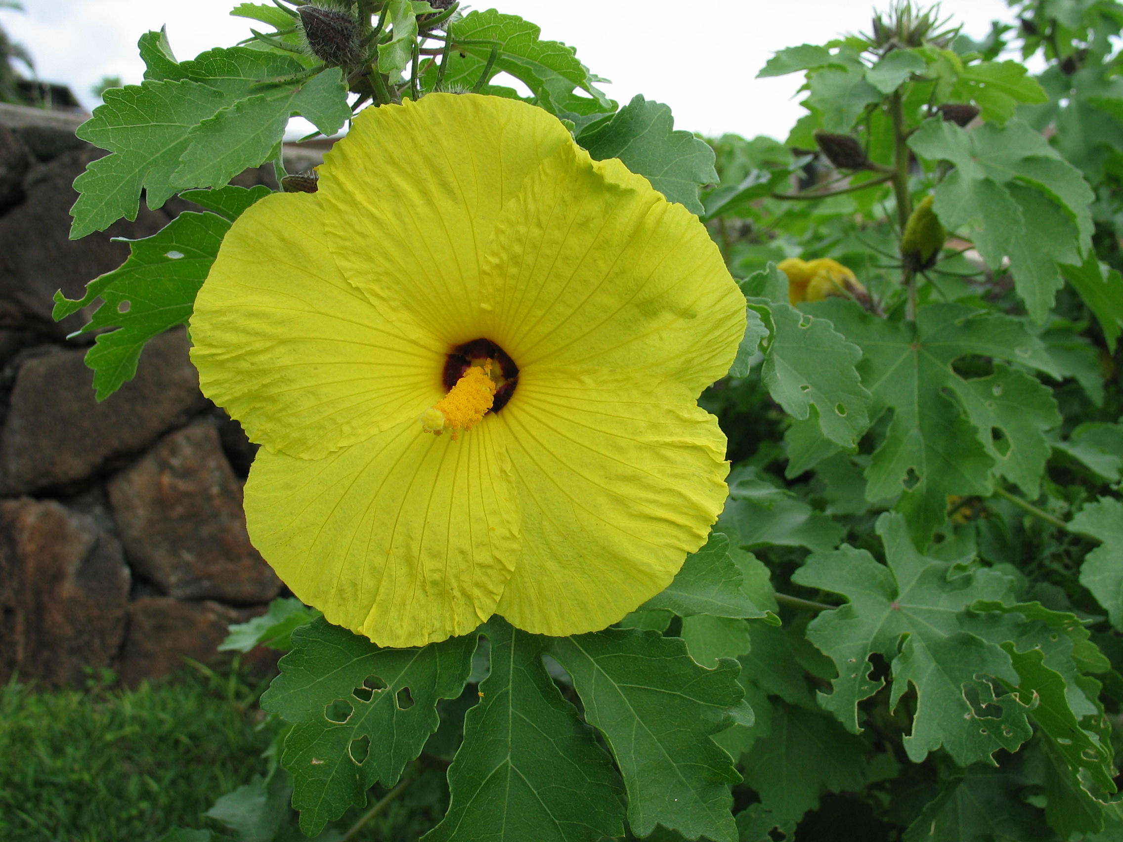 Maʻo hau hele Malvaceae Endemic to the Hawaiian Islands (Oʻahu, extant; Molokaiʻi, extinct) Endangered Oʻahu (Cultivated) Hibiscus brackenridgei has been chosen to represent the official flower for the State of Hawaii. (See story at the website below)